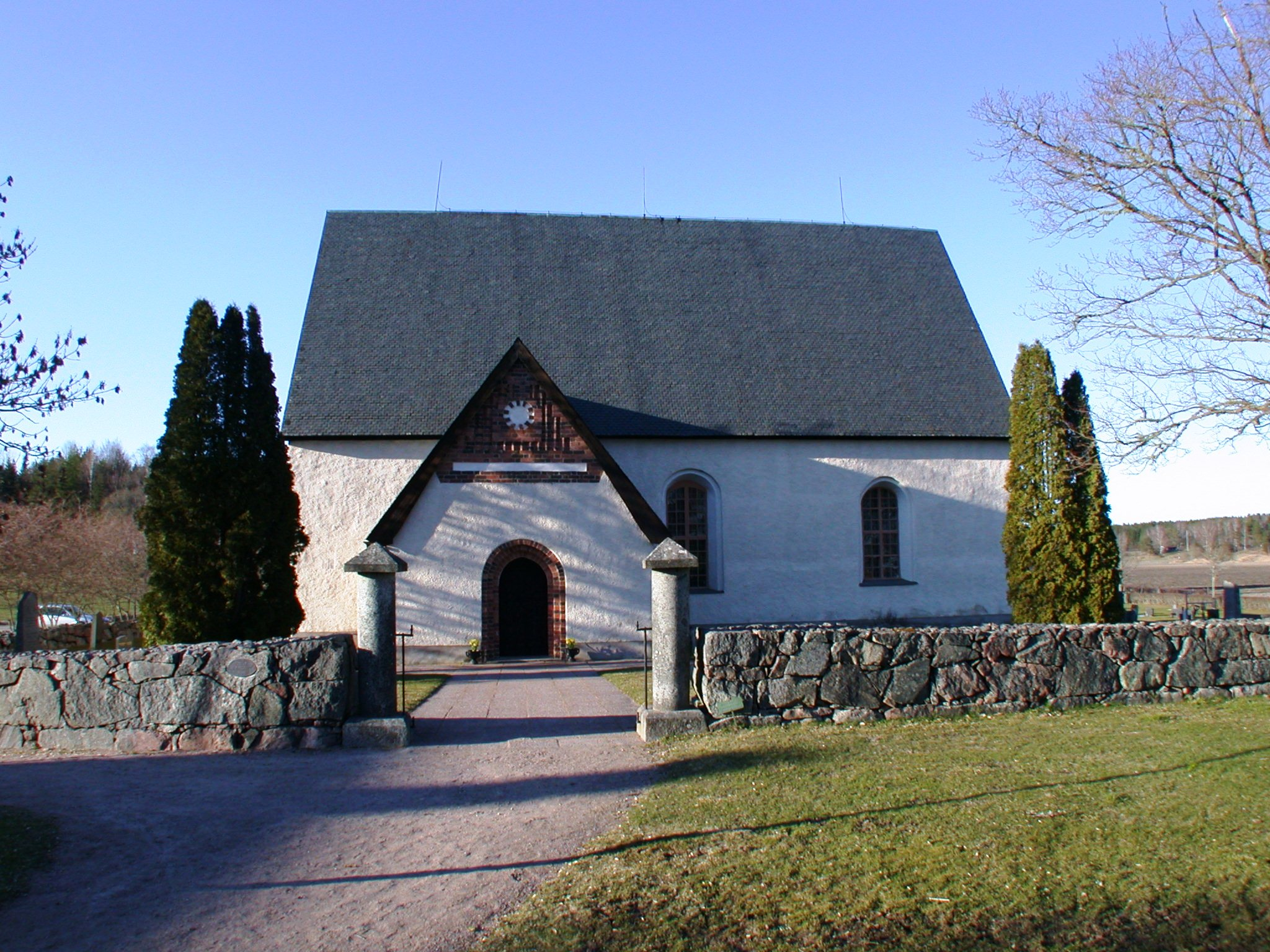 Ekeby church, Östhammar, Diocese of Uppsala, Sweden